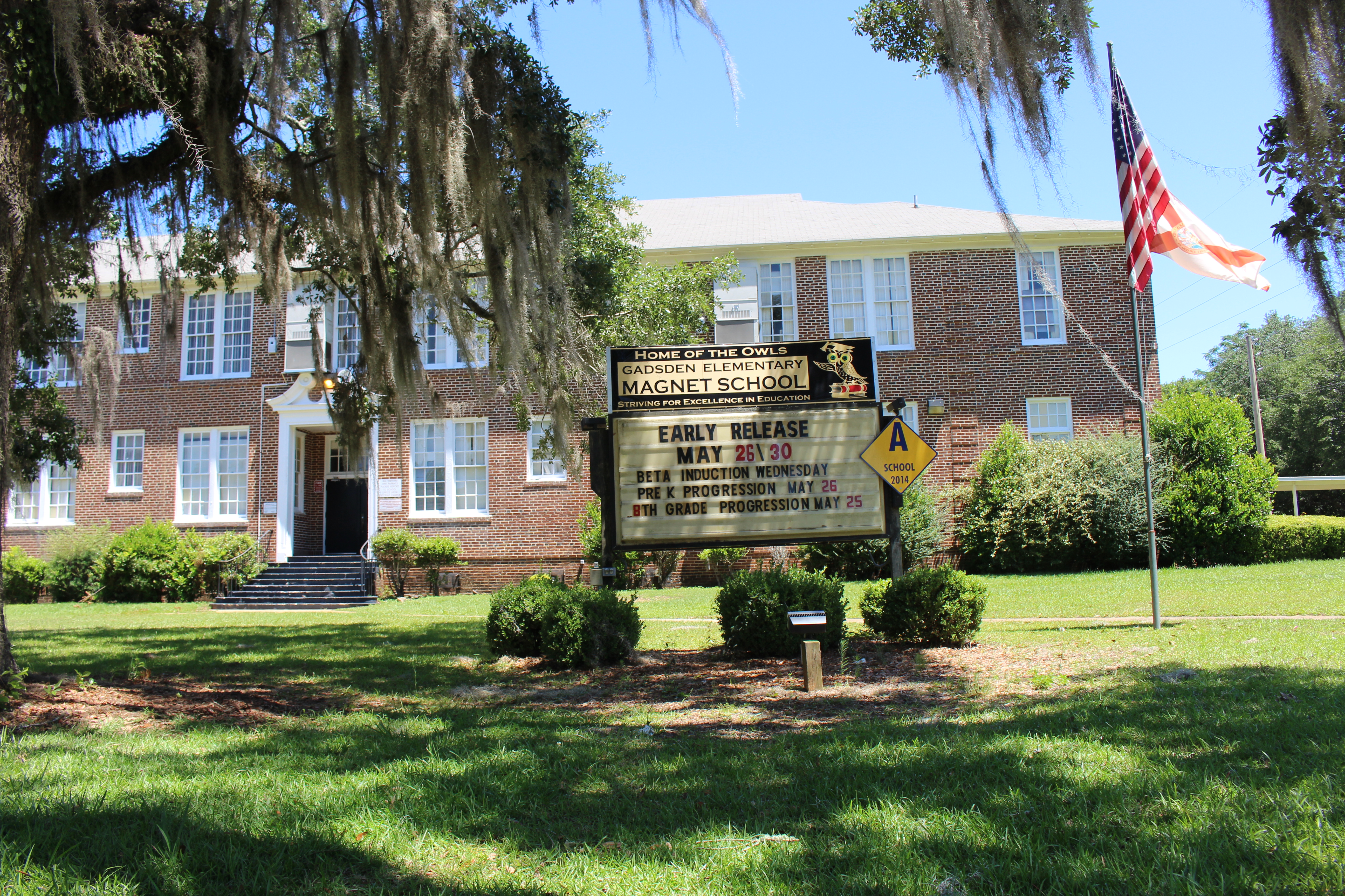 Gadsden Elementary Magnet School (Old Quincy High School), Quincy, Gadsden County, Florida